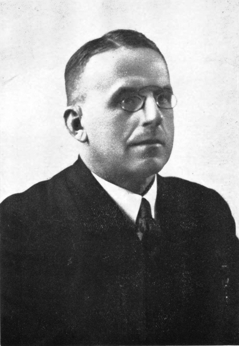 Stanisław Karol Władyczko, Polish neurologist and psychiatrist